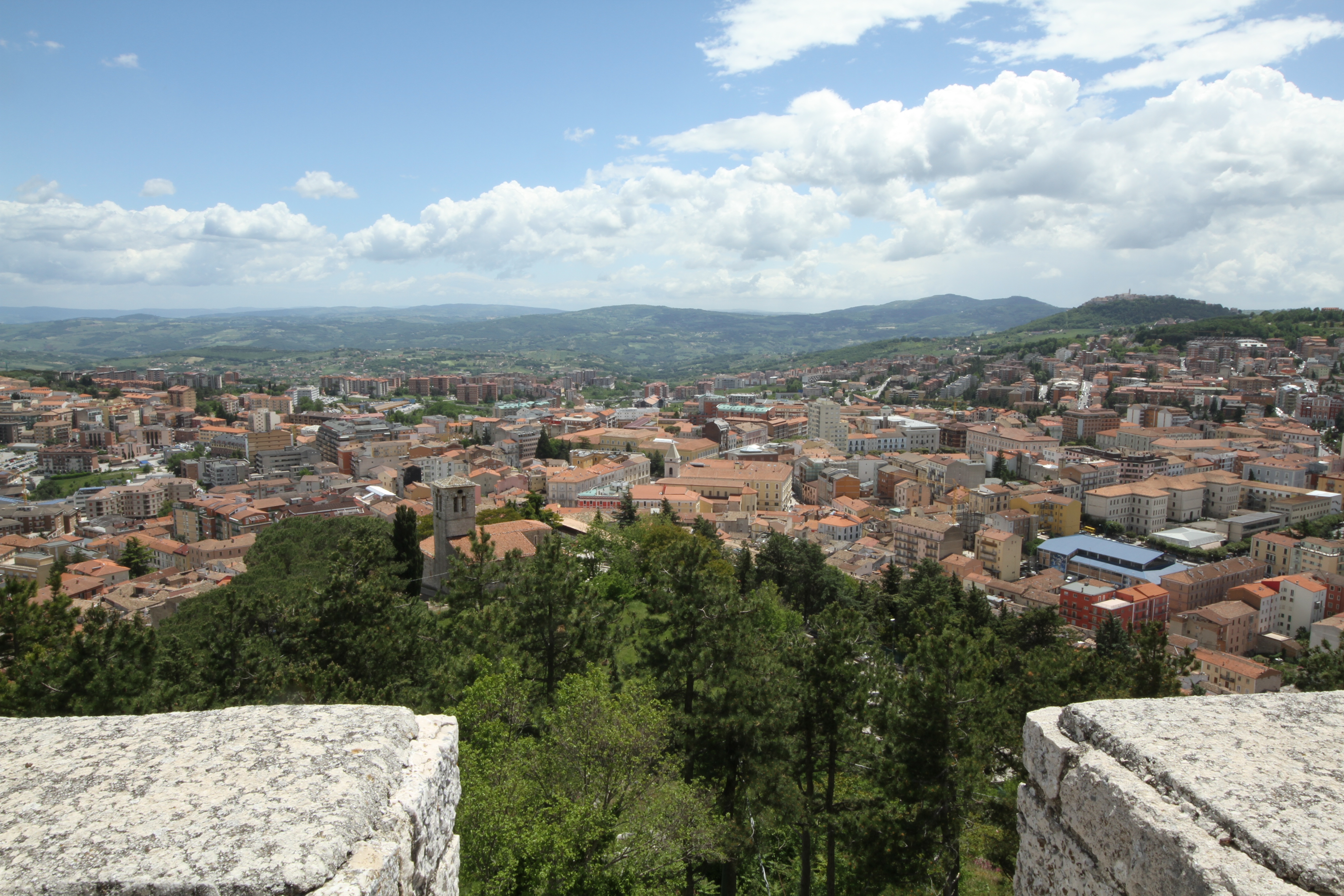 Old Town, 86100 Campobasso, Italy